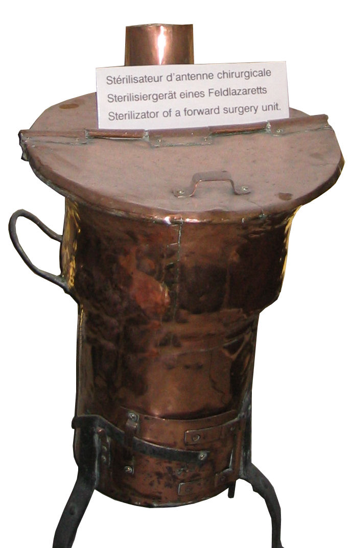 Sterilizator of a forward surgery unit WWI (in coll. Mémorial de Verdun)